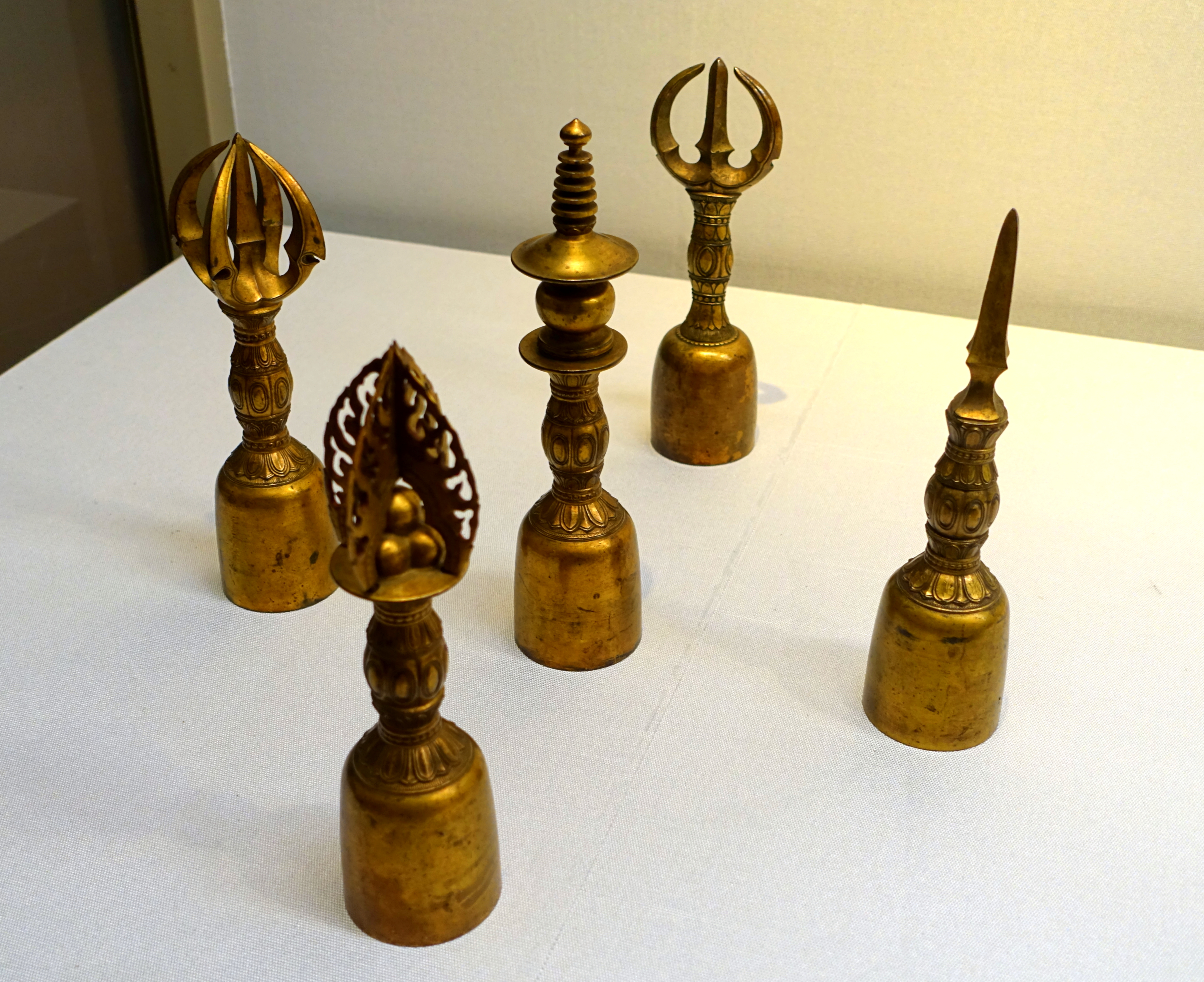 Exhibit in the Tokyo National Museum, Tokyo, Japan. This artwork is old enough so that it is in the public domain.